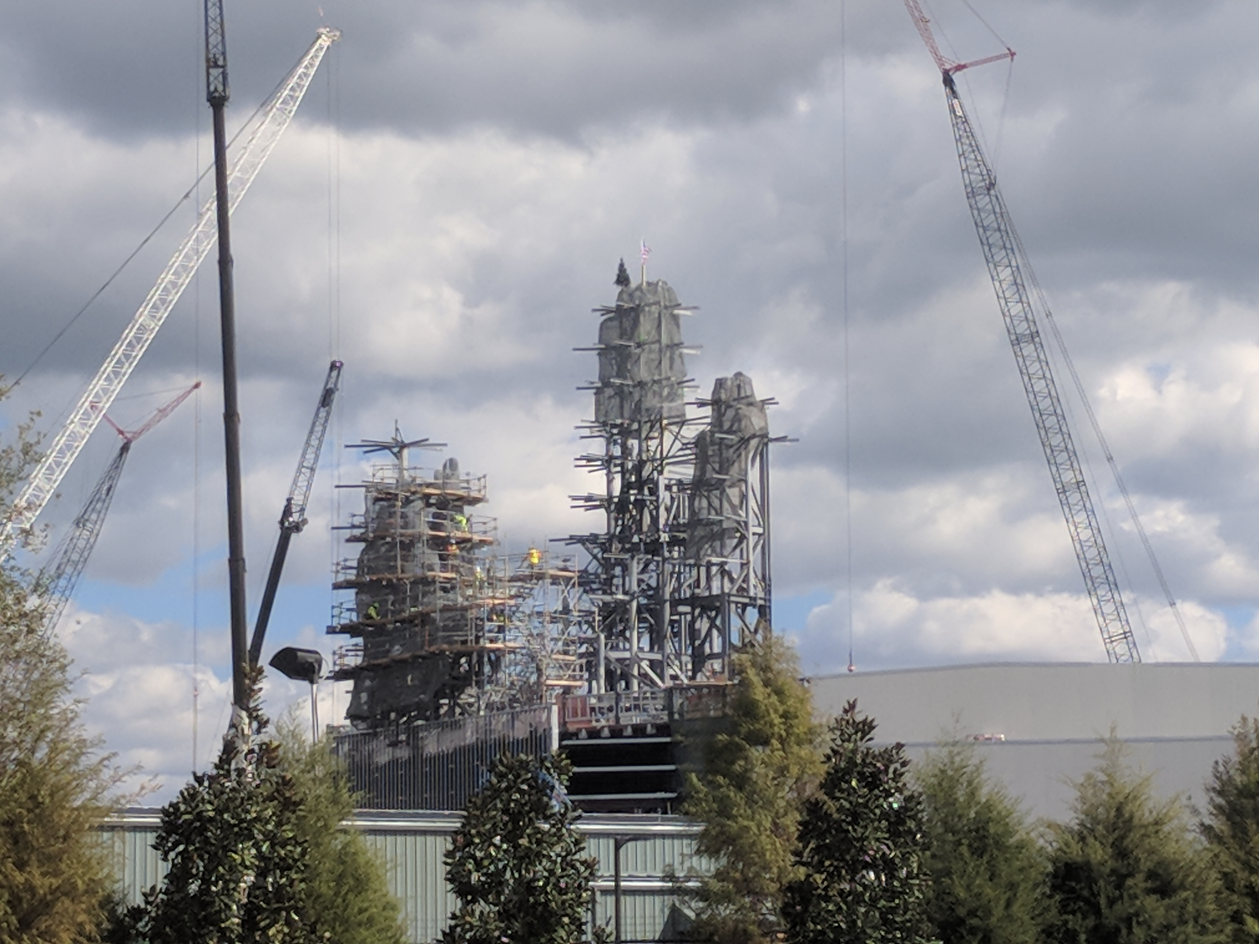 Galaxy's Edge Topped Off